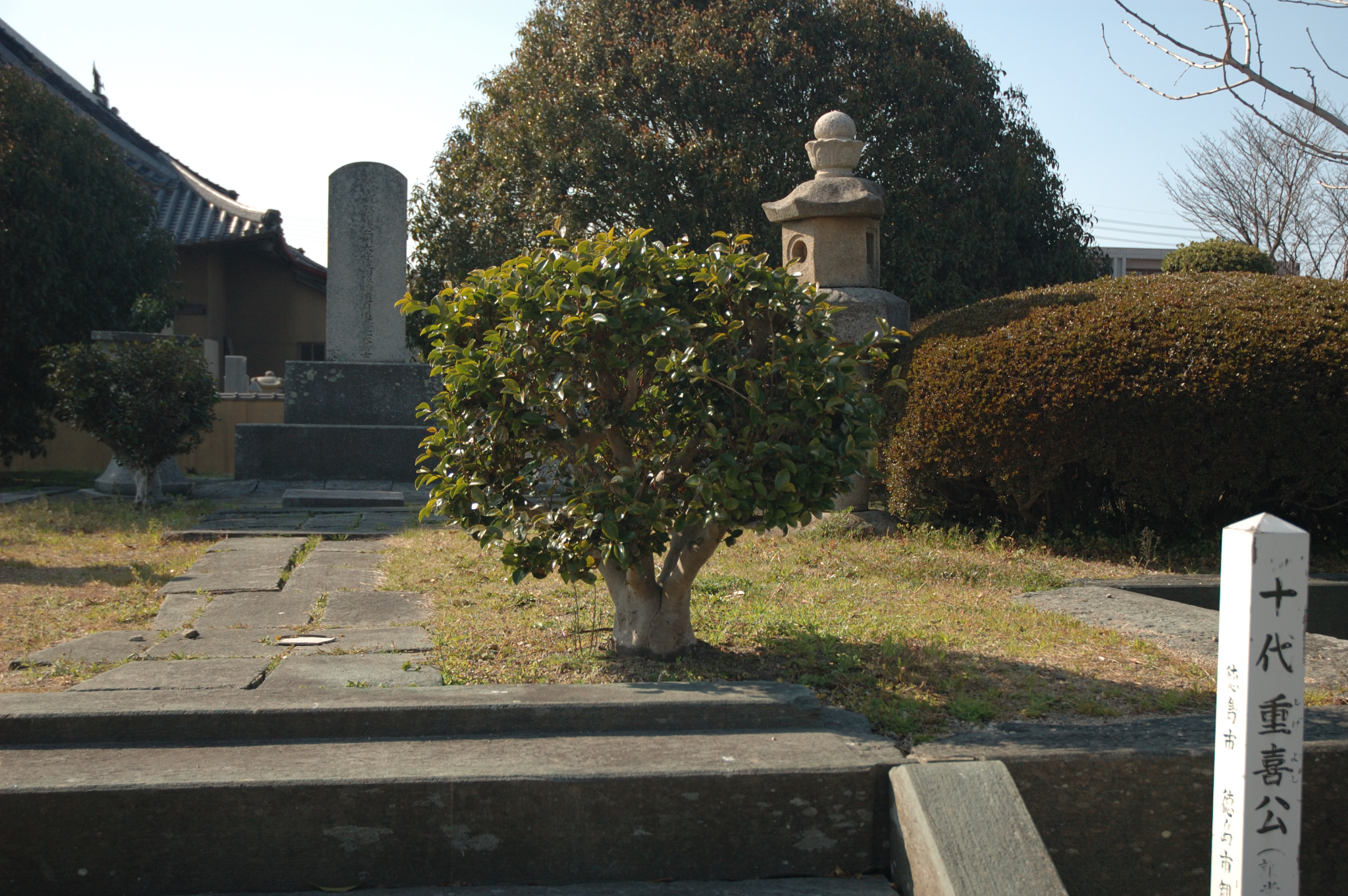 grave of Hachisuka Shigeyoshi(the tenth feudal lord)